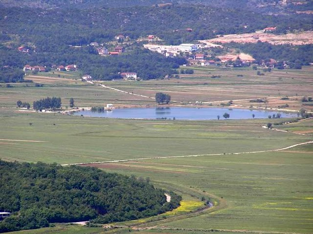 Krenica lake near Drinovci